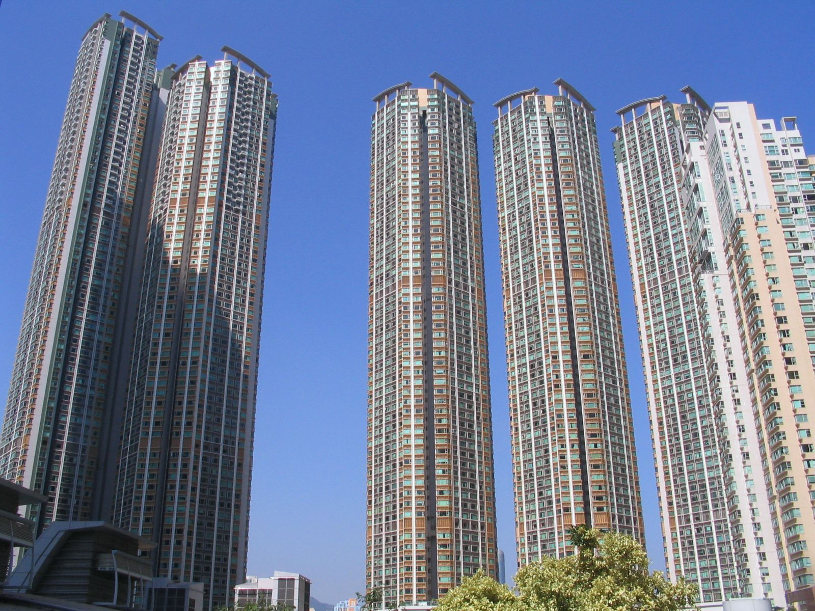 九龍站二期-擎天半島 Sorrento, Union Square Package 2